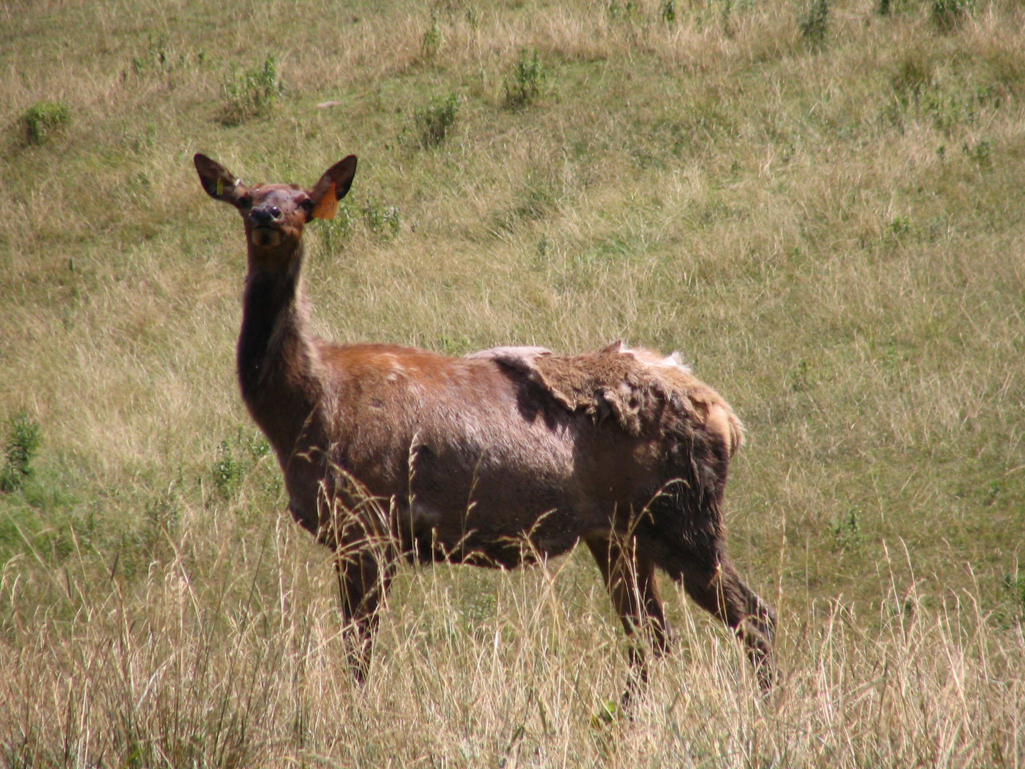 A happy elk near Caledonia, Elk County, Pa.